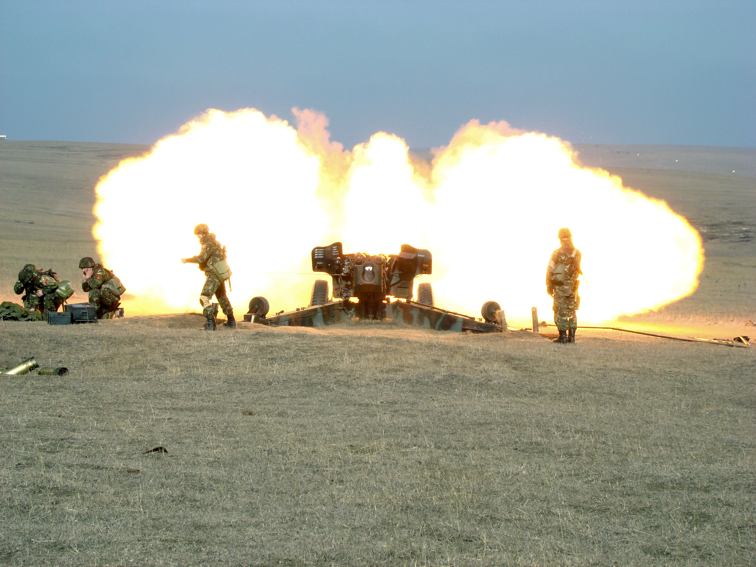 Real shooting tactical exercises in Smardan shooting-range with the 152 mm howitzer M81.